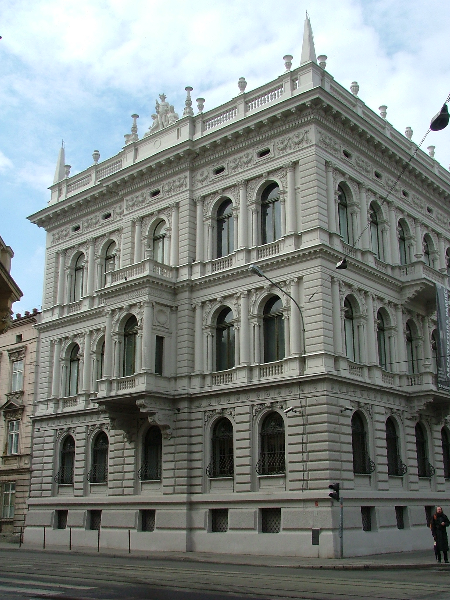 This picture was taken during the photographic wikiworkshop organized by the Association of Wikimedia Poland. All pictures of the workshop you can see in the category wikiwarsztaty 2010. Muzeum Sztuki